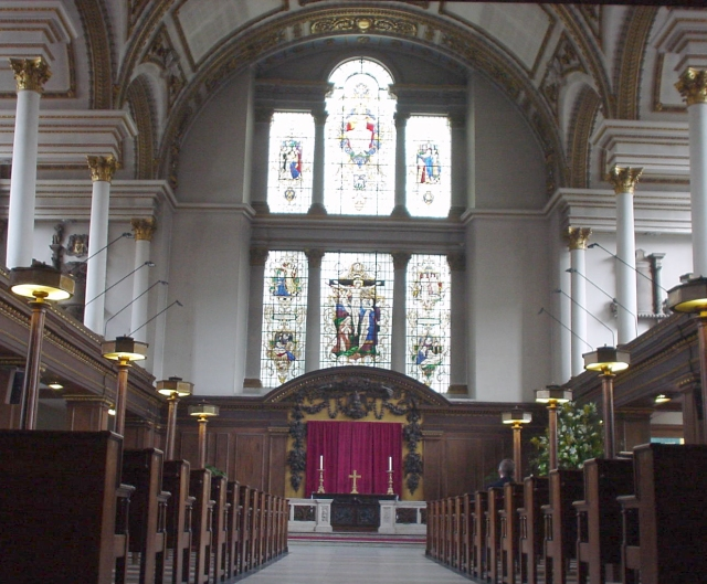 Photo taken by lonpicman